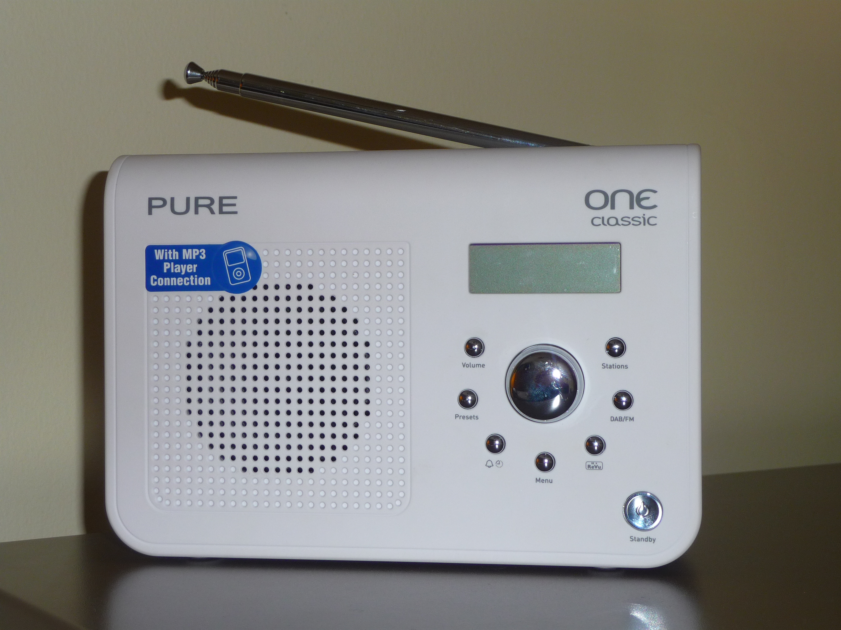 DAB RADIO 2008